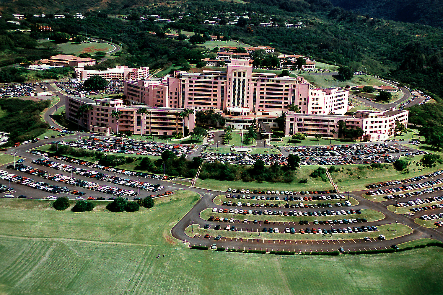 Aerial view of Tripler Army Medical Center on Moanalua Ridge, Oahu, Hawaii, USA.